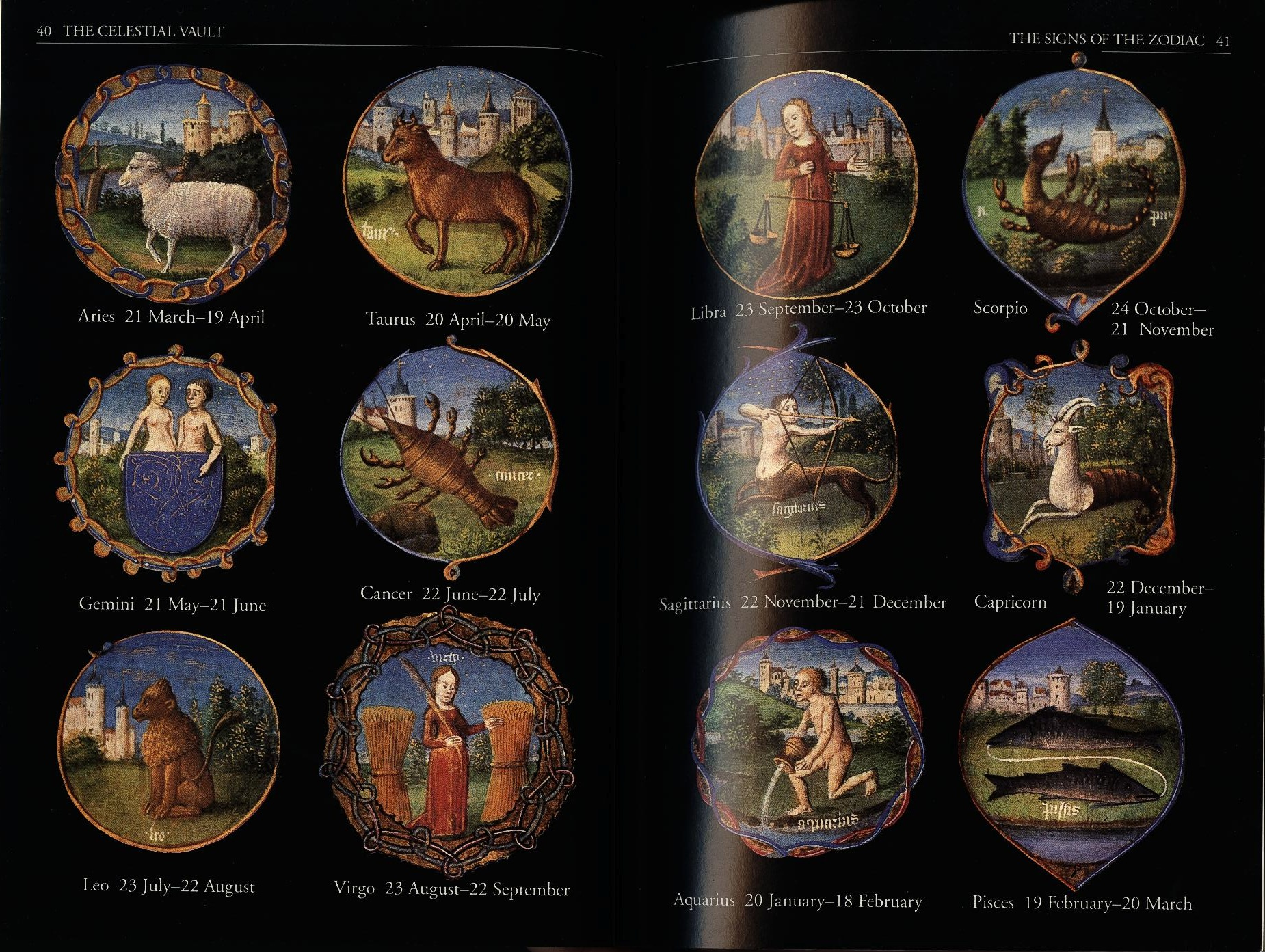 The twelve signs of the zodiac, miniatures extracted from a late 15th-century book of hours once belonged to Antoine de Navarre. Bodleian Library, Oxford. — Images in the book The Sky: Order and Chaos by Jean-Pierre Verdet, ‘New Horizons’ series, Thames & Hudson, 1992. 中文（台灣）: 黃道十二宮。原載 Antoine de Navarre 日課經，15世紀末。英國牛津 Bodleian 出版社出版。——「發現之旅」第9冊《星空：諸神的花園》第40–41頁，插圖說明位於此書第191頁。Jean-Pierre Verdet/著，時報出版，1994年5月31日。